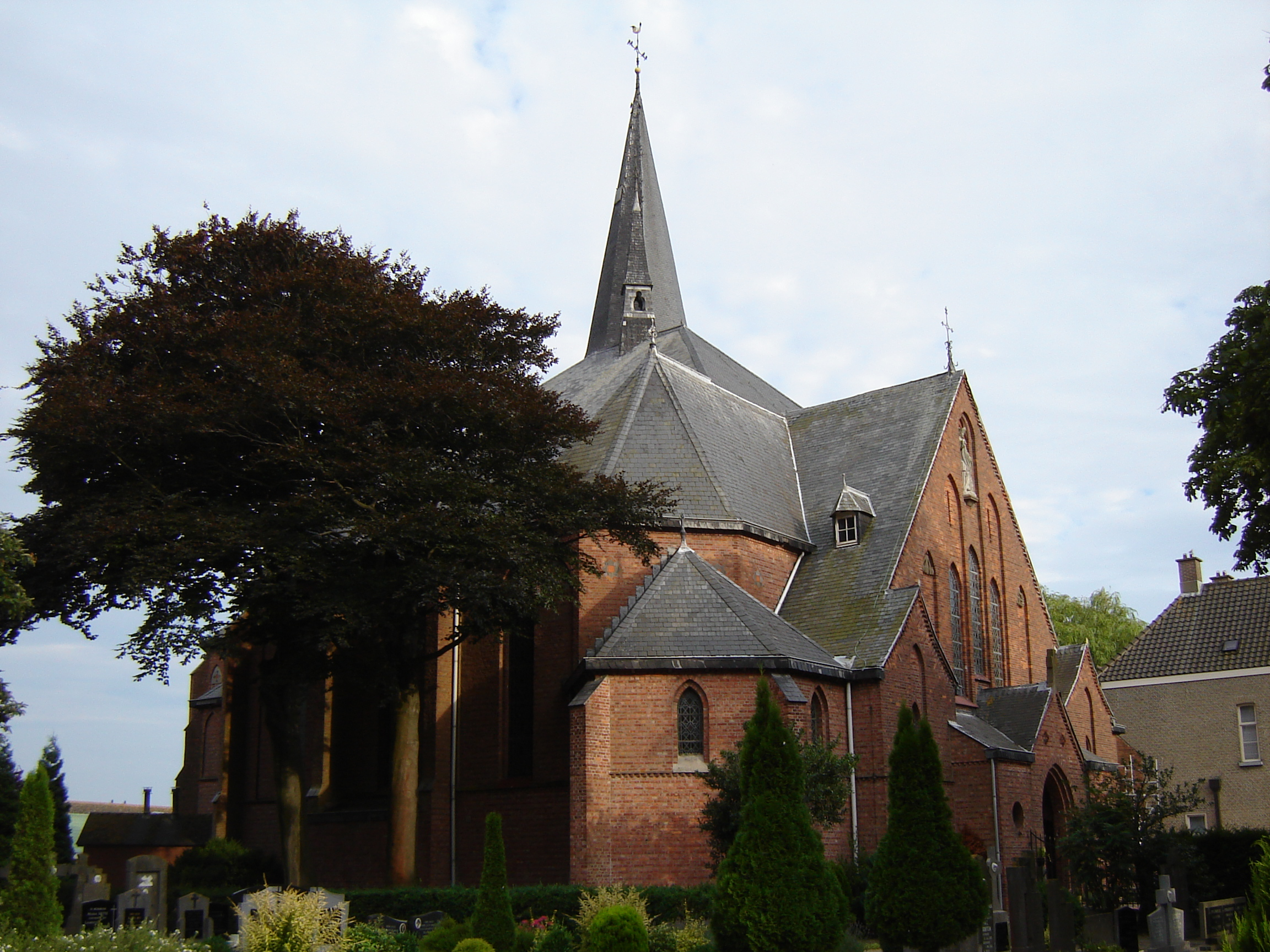 Church of Saint Willibrord in Ossenisse; used as church until 1998. Ossenisse, Hulst, Zeeland, Netherlands.